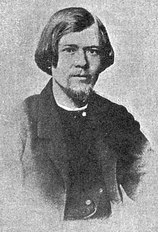 Russian writer Alexander Levitov.